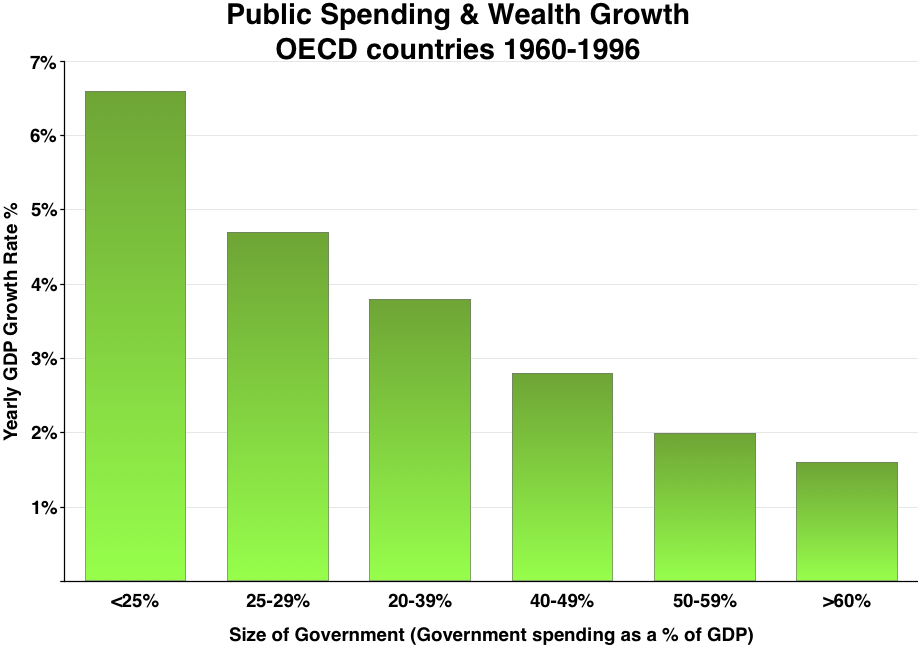 Public spending vs. GDP growth